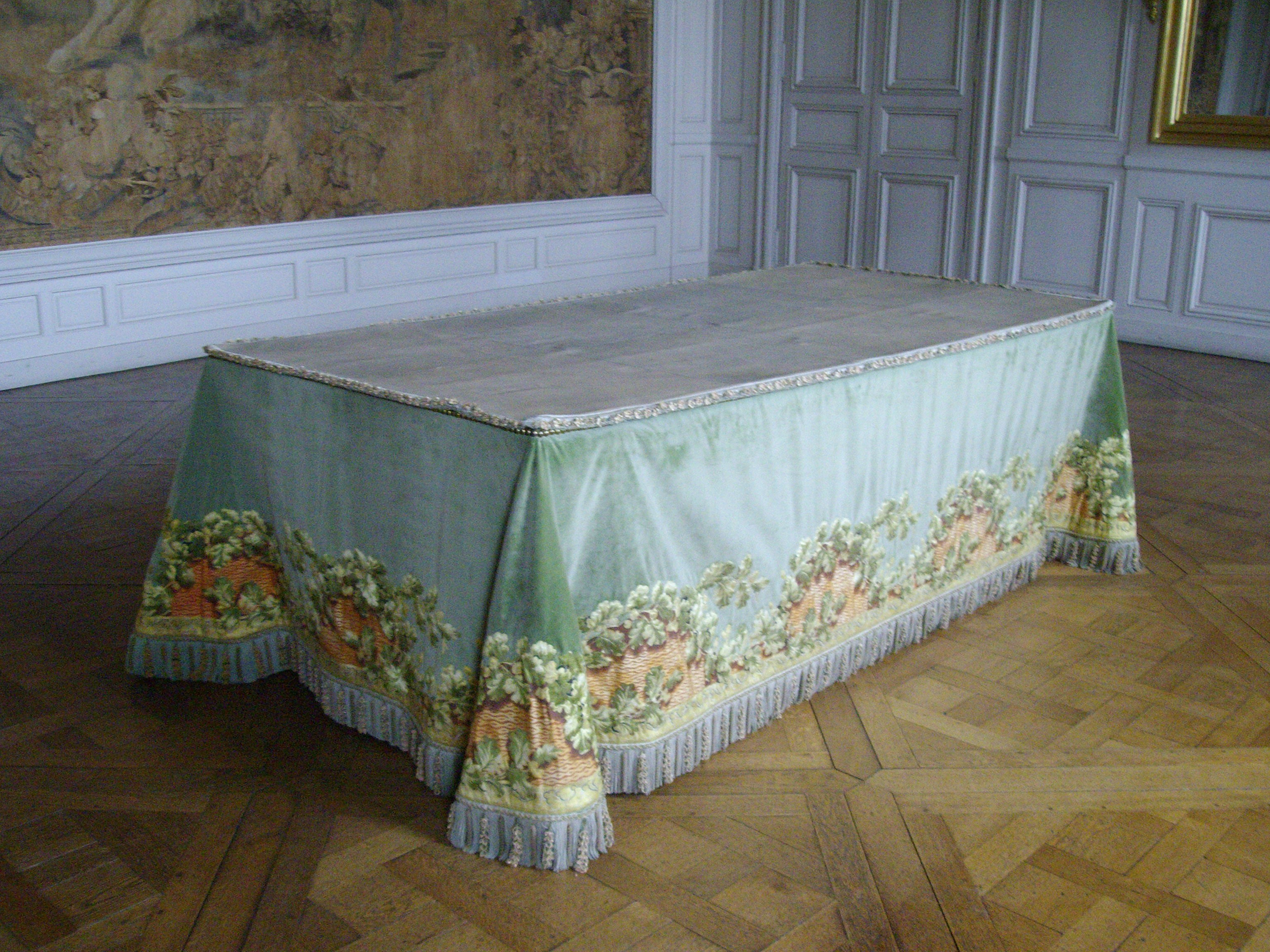 The Château de Compiègne in Compiègne in the Oise département (Picardie, France)